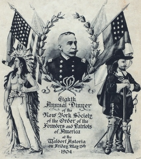 invitation to the 1904 OFPA assembly